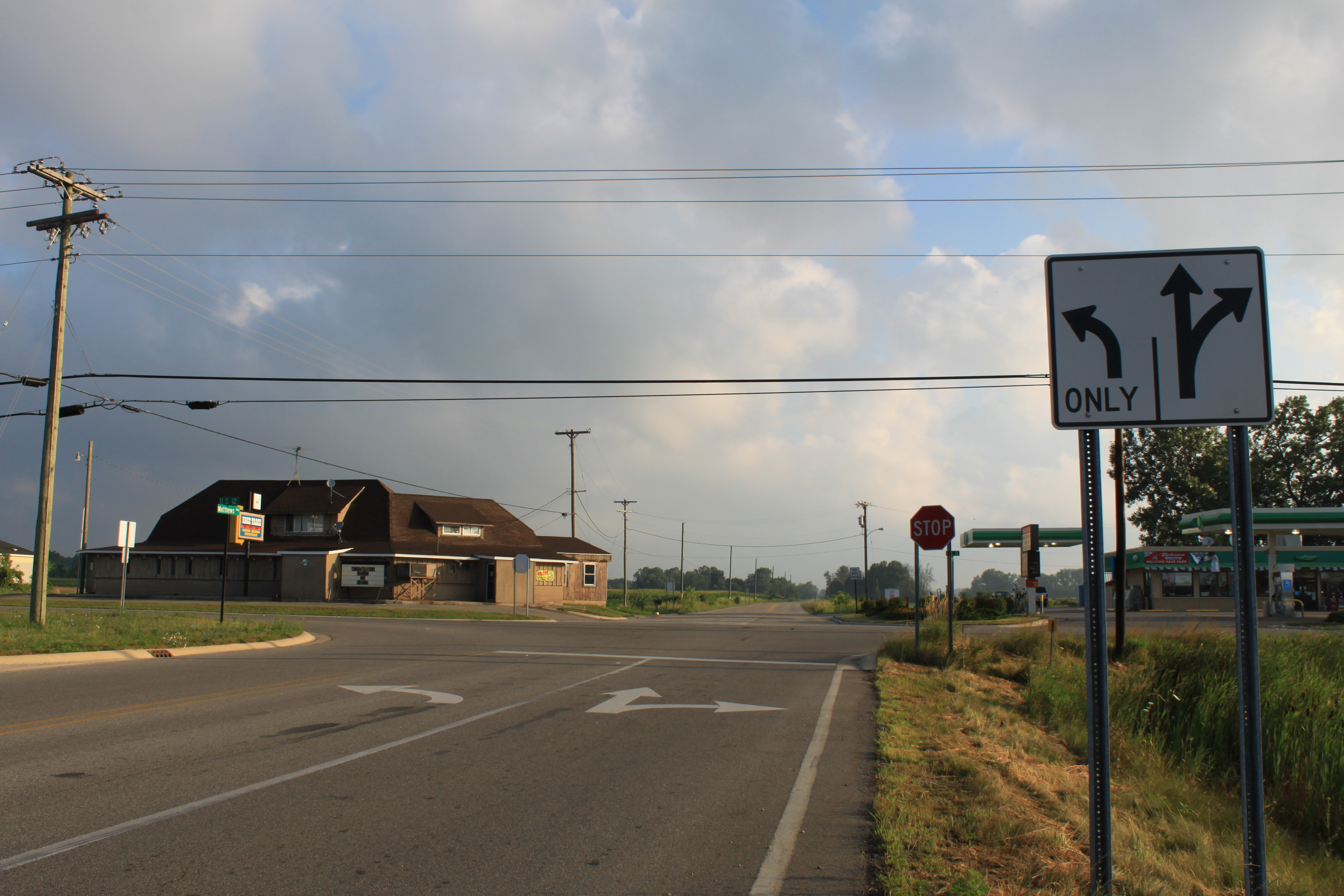 Brighton Airport Clinton Michigan, intersection of Michigan Ave. and Bartlett Rd./Matthews Hwy. at southern end of airport.